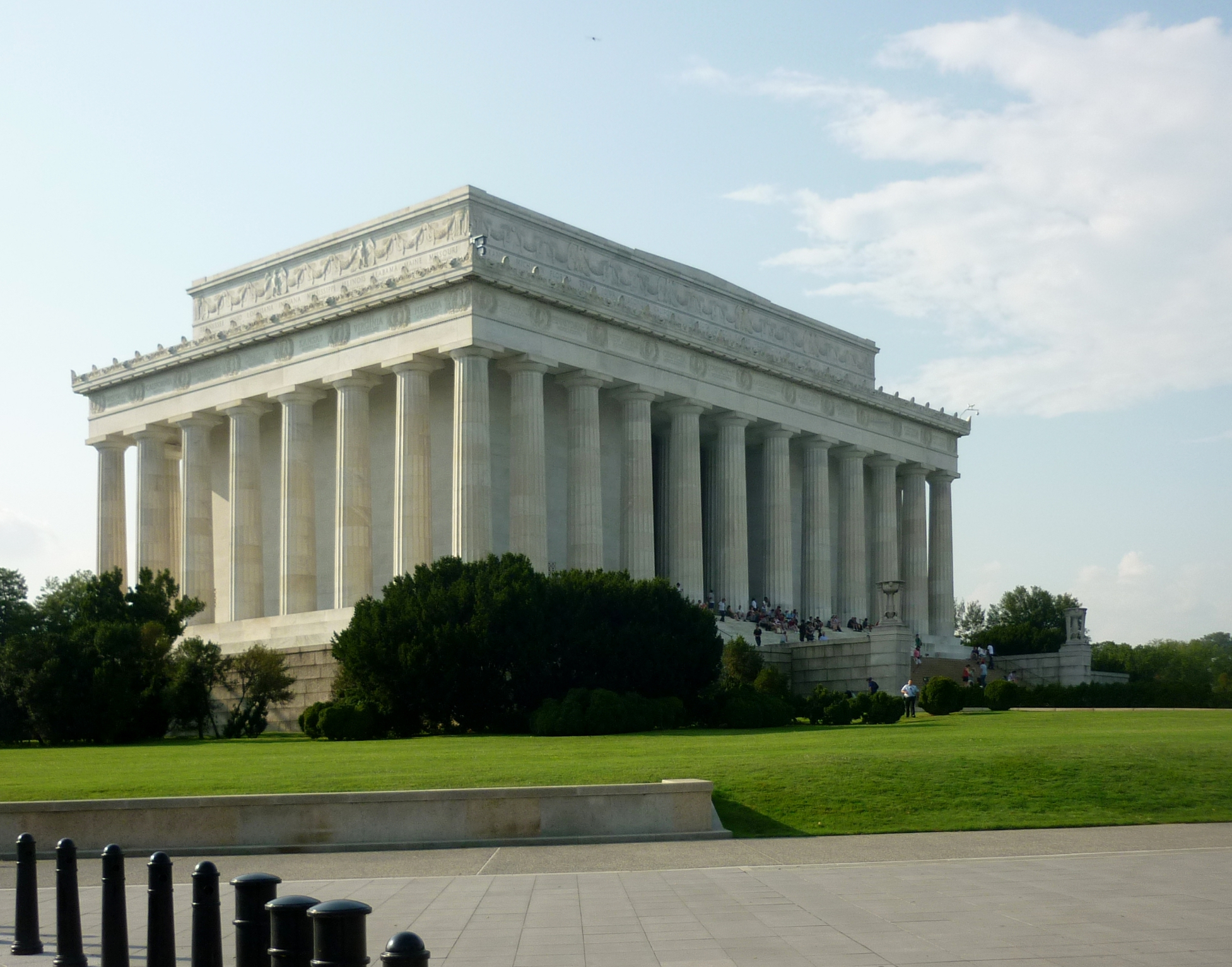 Lincoln Memorial in Washington DC